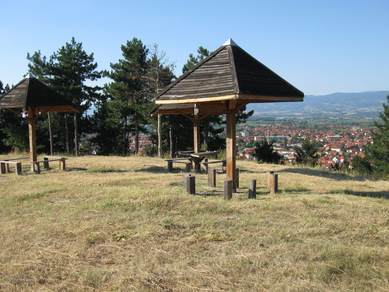 Hisar Nort View